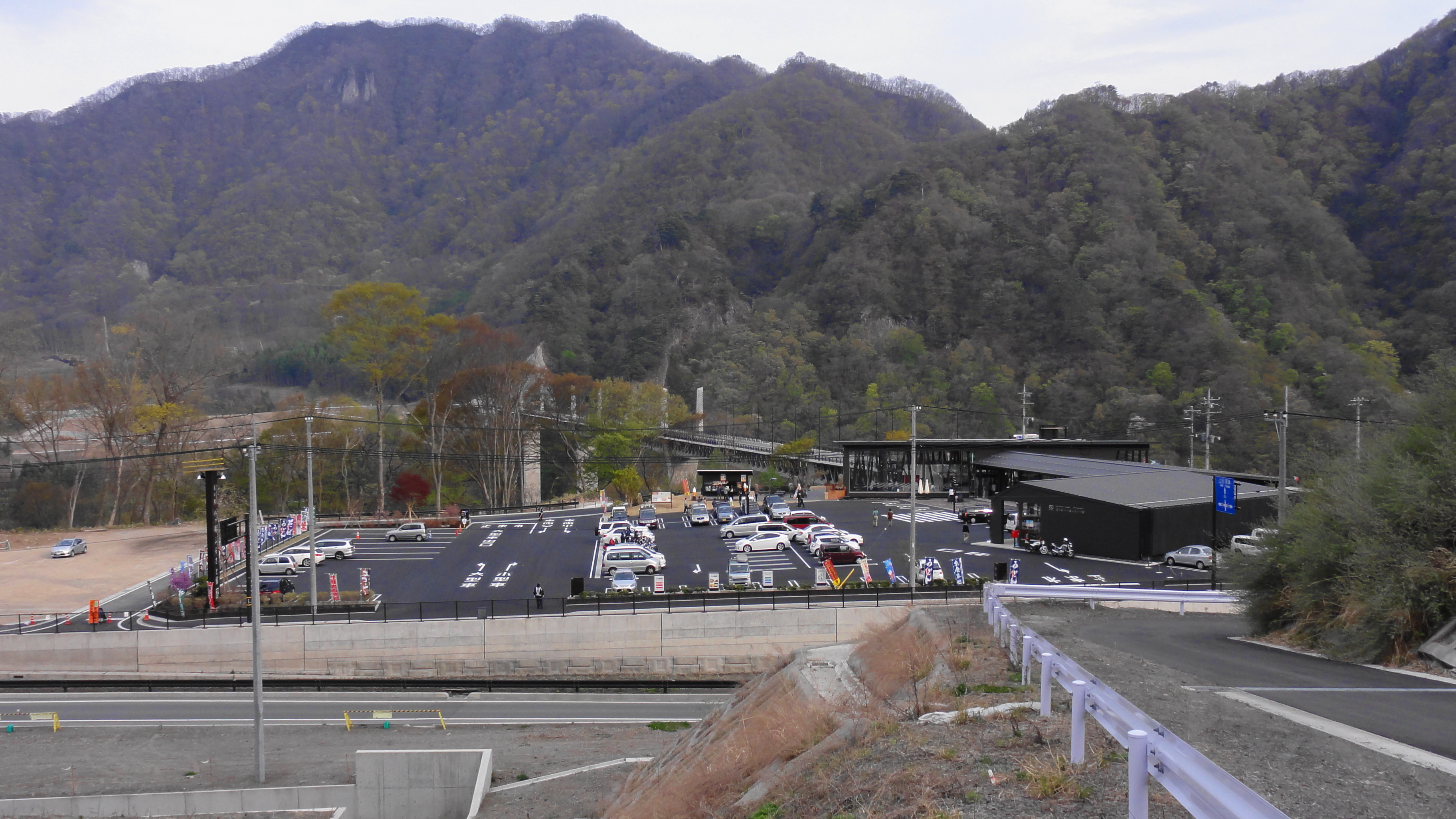 Road to station Yamba,Gunma prefecture,Japan